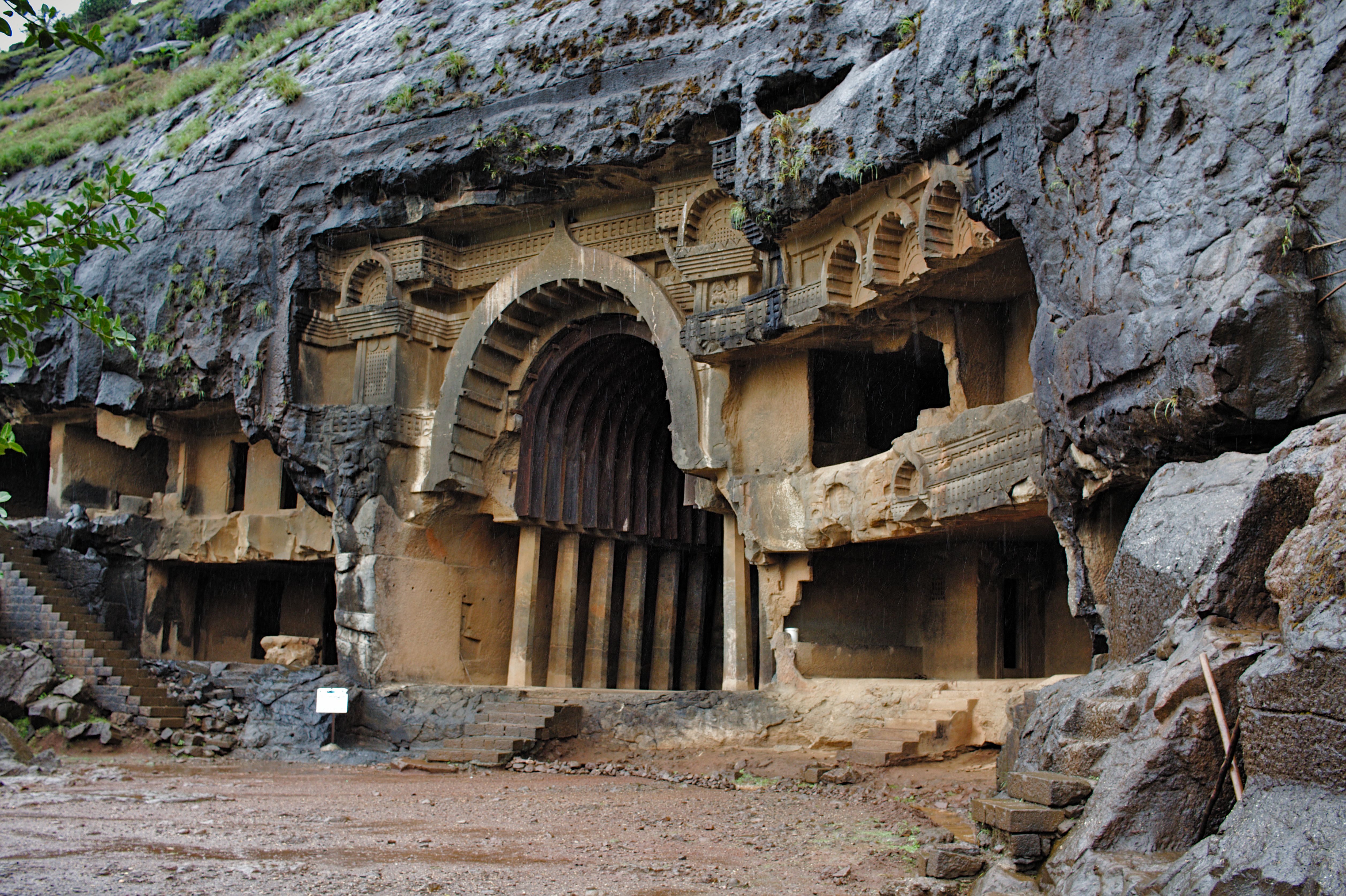 Chaitya graha in Bhaje caves.